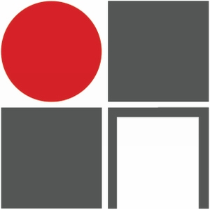 Logo of Institute of Architects Bangladesh.